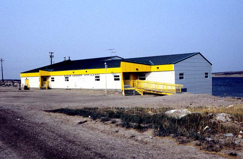 Health Center of Chesterfield Inlet (Nunavut, Canada)